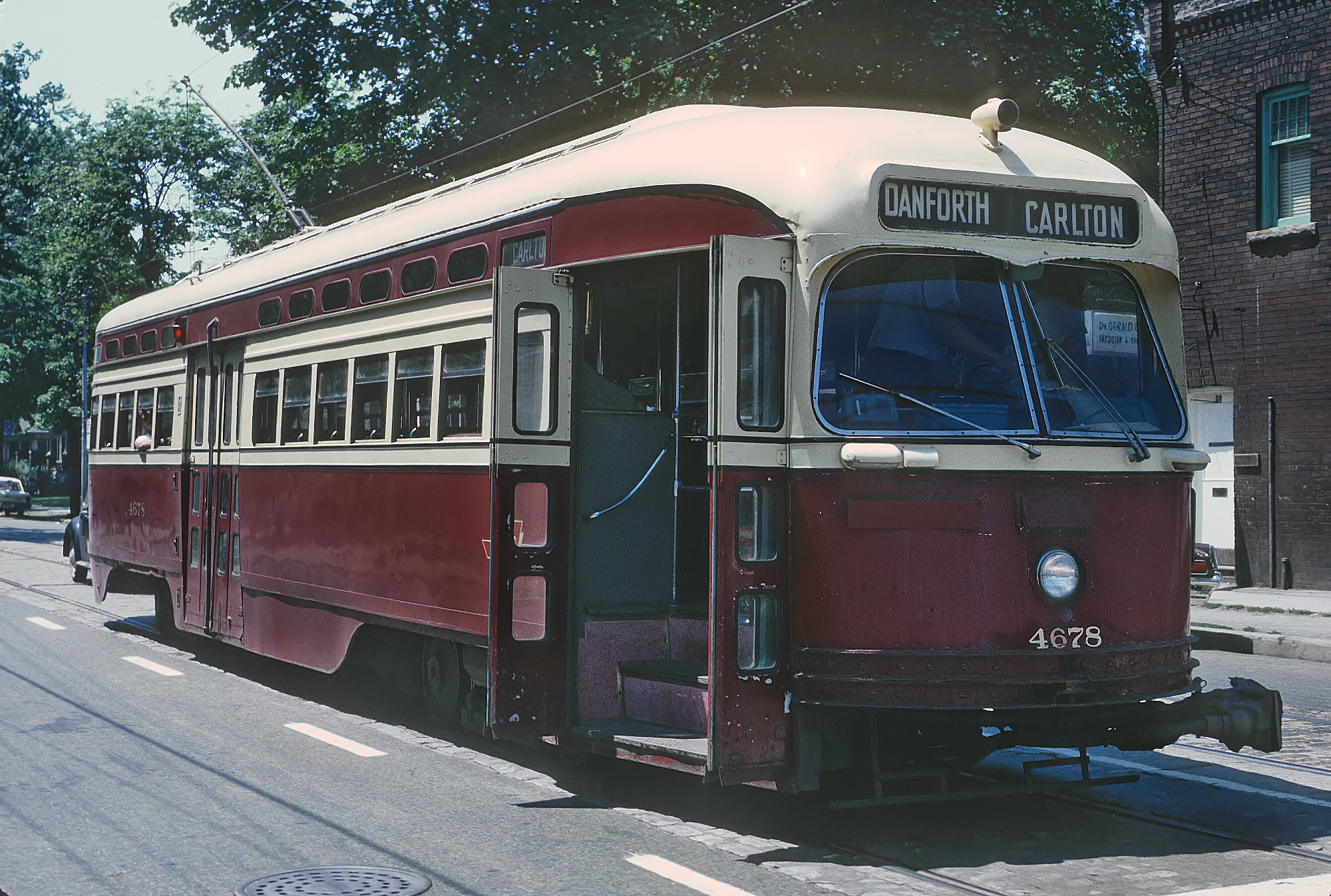 A Roger Puta photograph